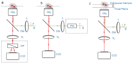 (a) A typical setup of fluorescence anisotropy (FA). Circularly polarized light source is used, with either epi-illumination (displayed in the figure) or confocal illumination (together with a point detector, not displayed). Wollaston Prism (WP) could allow simultaneous detection of two polarization channels utilizing two halves of the camera. (b) A typical setup of linear dichroism (LD). The linearly polarized light source passes a polarization modulator (PM), resulting in varying polarization of excitation light. The time trace image of fluorescence intensity changing with the excitation polarization would be recorded. Both epi-illumination or confocal illumination could be used and the polarization modulator could be a rotary half wave plate, an electro-optical modulator, etc. (c) A typical setup of defocused pattern recognition (DPR). The sample is usually defocused with several hundred nanometers away from the focal plane of the objective. The diffraction pattern of the dipoles would be recorded and be used for orientation measurement. Circularly polarized light source is used for effective excitation of all the dipoles. Abbreviations: S – light source; L – collimating lens; DM – dichroic mirror; Obj – objective; TL – tube lens; CCD – CCD camera; WP – Wollaston Prism; PM – polarization modulator.